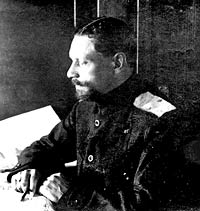 Vladimir Kappell (Summer 1919)